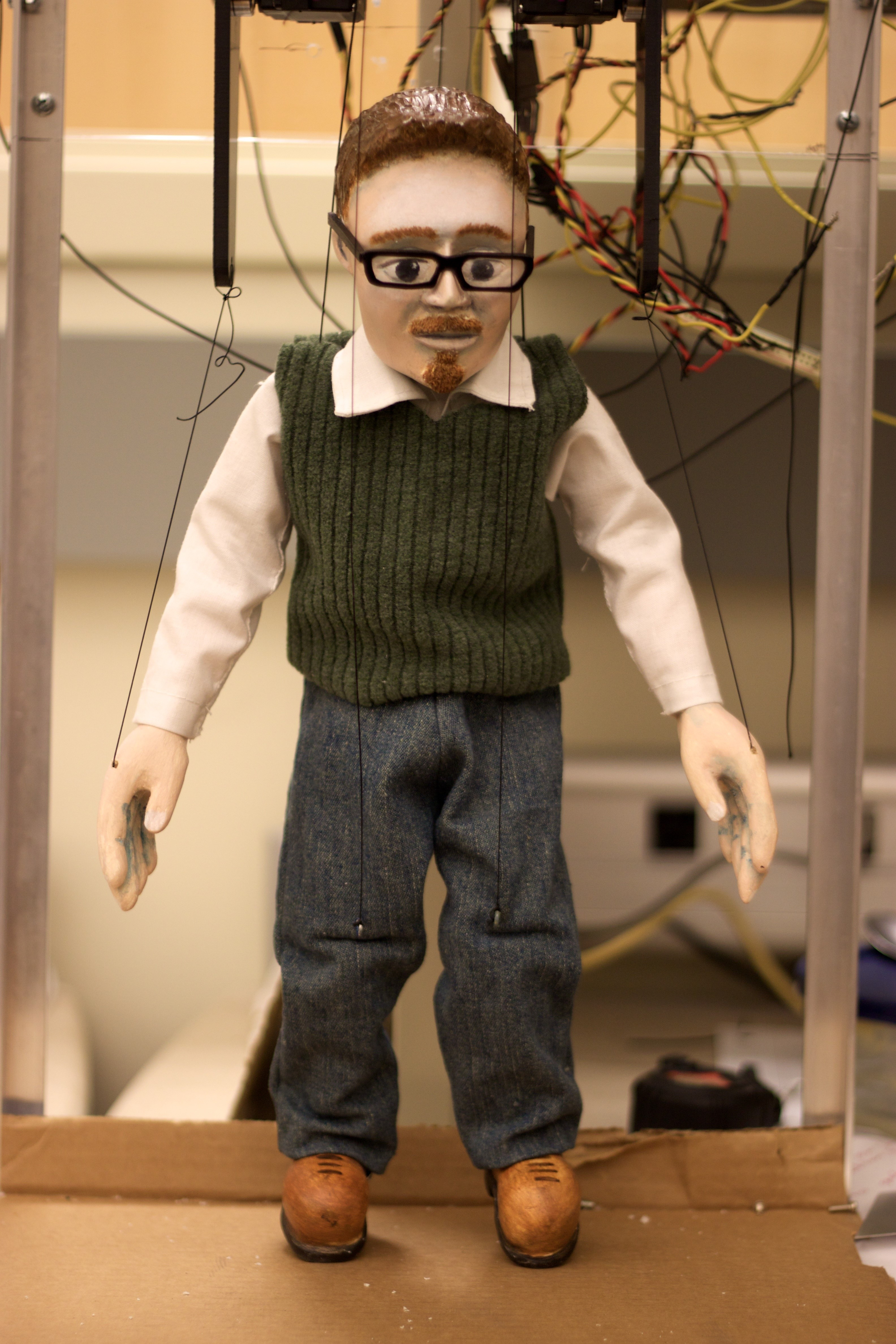 A robotic marionette, in the likeness of Magnus Egerstedt, is used for studying complex control algorithms and motion imitation.